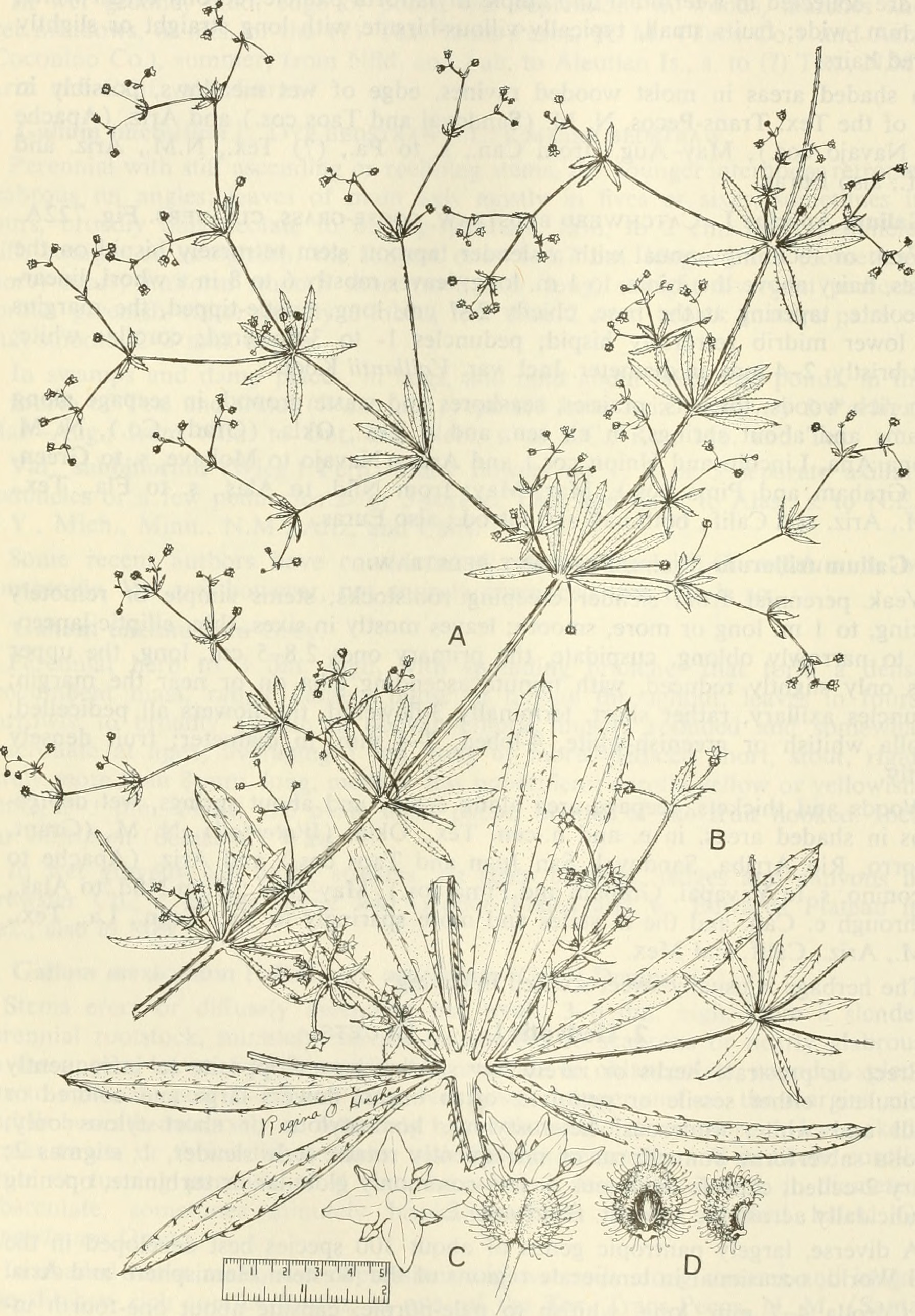 Title: Aquatic and wetland plants of southwestern United States Year: 1972 (1970s) Authors: Correll, Donovan Stewart, 1908-; Correll, Helen B Subjects: Aquatic plants -- Southwestern States; Wetland plants -- Southwestern States Publisher: [Washington Environmental Protection Agency; [For sale by the Supt. of Docs. , U. S. Govt. Print. Off. Text Appearing Before Image: ' Text Appearing After Image: Fig. 722A: Galium Aparine: A, habit, x V^, B, enlarged leaf whorl, x 2; C, flowers, X 12; D, fruits, x 10. (From Reed, Selected Weeds of the United States, Fig. 173).